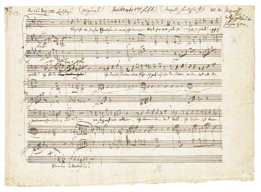 "Als Luise die Briefe ihres ungetreuen Liebhabers verbrannte" (K. 520) autograph, page 1